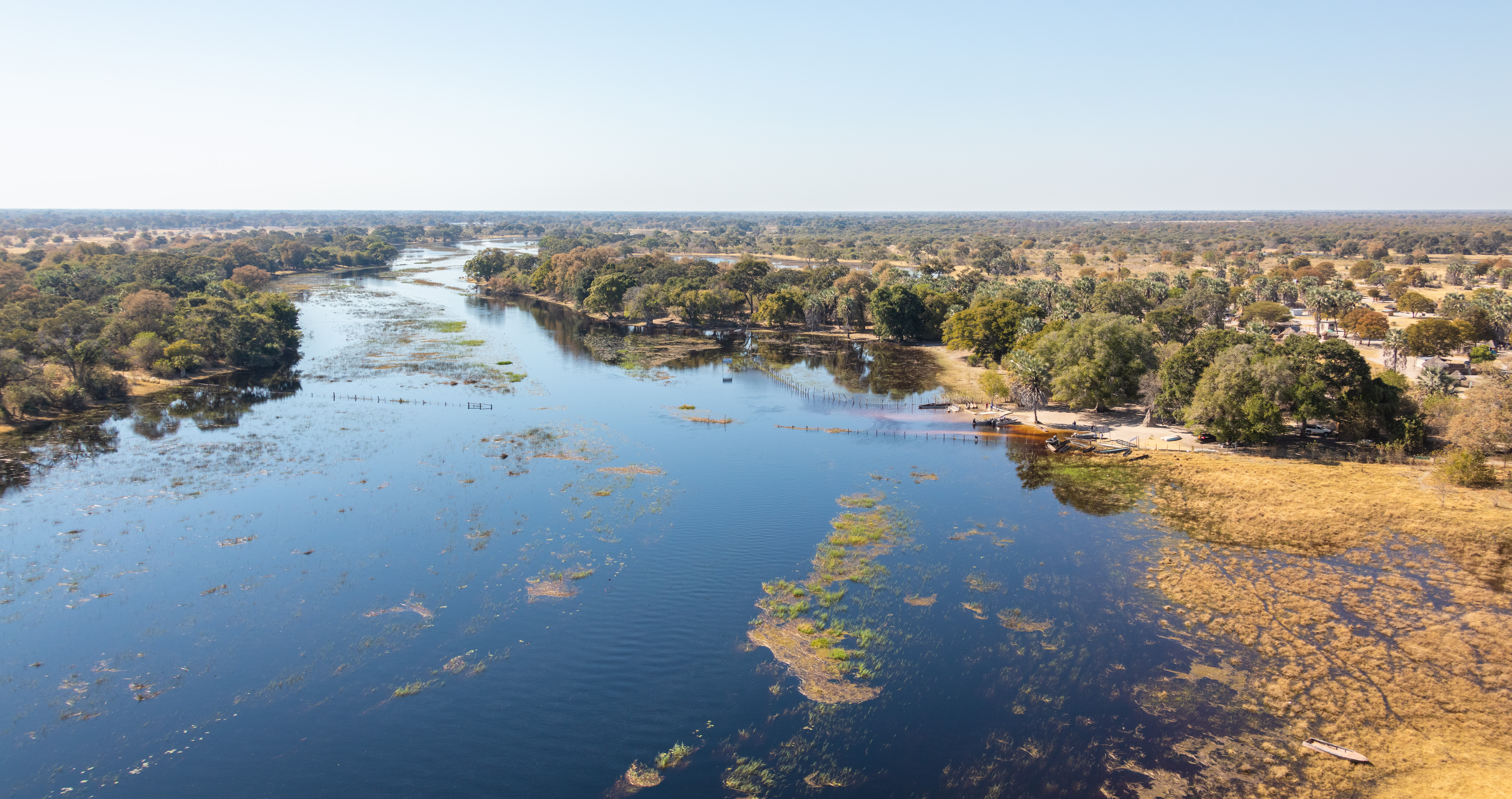 Aerial view of Okavango Delta, Botswana